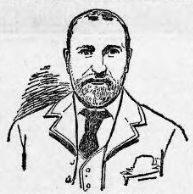 James Millar Jack, General Secretary of the Associated Iron Moulders of Scotland, while attending the 1895 Trades Union Congress